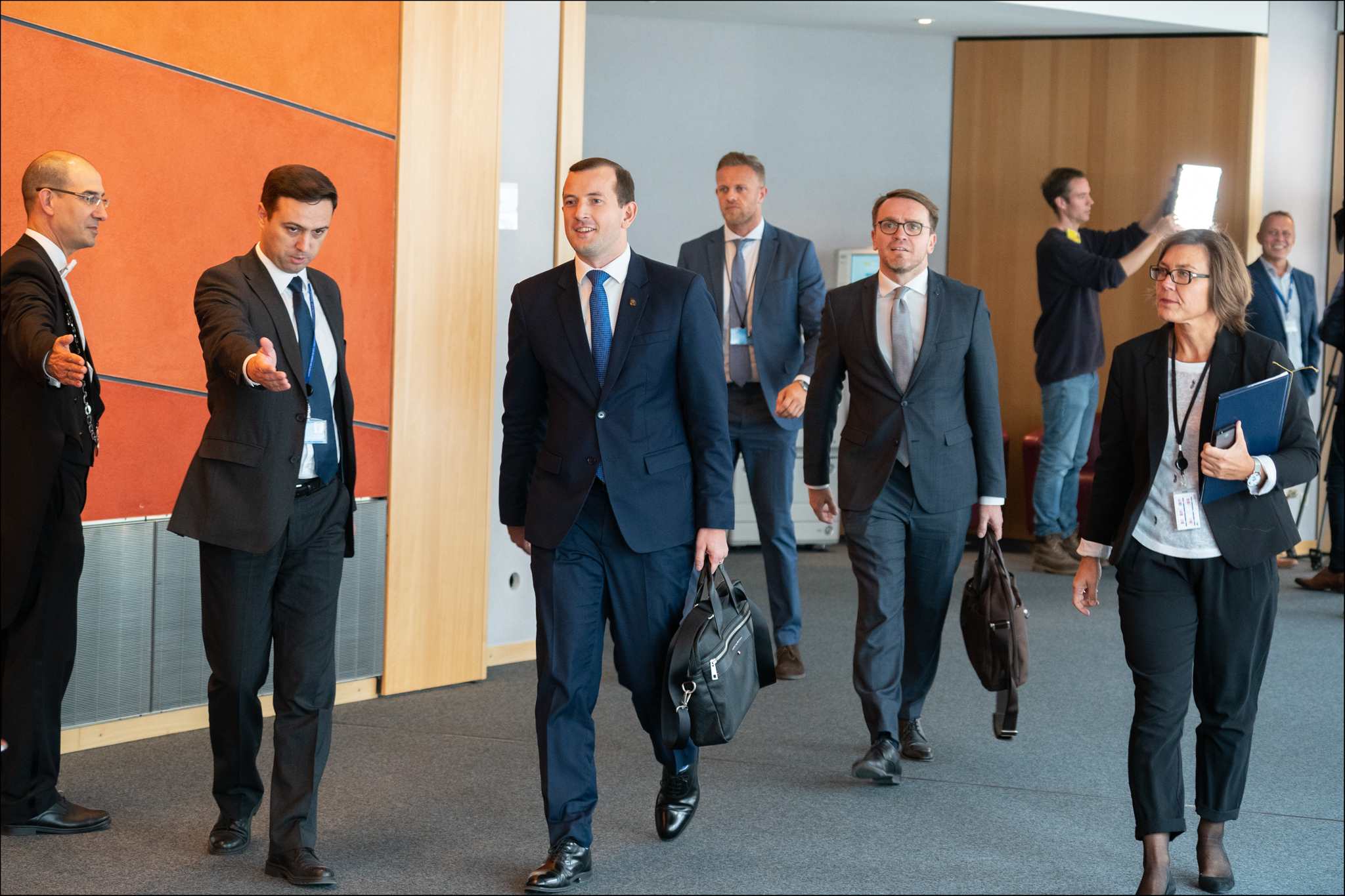 Before the European Parliament can vote the new European Commission led by Ursula von der Leyen into office, parliamentary committees will assess the suitability of commissioners-designate. On 23-26 May, more than 200,000,000 people in 28 EU countries went to the polls to elect members of the European Parliament, giving them a strong democratic mandate, including voting into office the new European Commission and examining the competencies and abilities of its commissioners-designate. Elected members of the European Parliament will also listen to their ideas and will assess their willingness to take concrete actions on the issues that Europeans care about. Each candidate commissioner is invited for a live-streamed, three-hour hearing in front of the committee or committees responsible for their proposed portfolio. The hearings will take place between Monday 30 September and Tuesday 8 October. This photo is free to use under Creative Commons license CC-BY-4.0 and must be credited: "CC-BY-4.0: © European Union 2019 – Source: EP". No model release form if applicable. For bigger HR files please contact: webcom-flickr(AT)